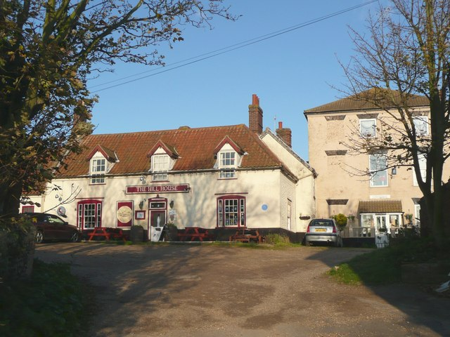 The Hill House, Happisburgh I did not notice the blue plaque when I was there. It is probably for one or both of the men in the following quotations from the village website: William Cowper, the poet and hymn writer, visited Happisburgh twice in his last sad years when suffering from mental illness. In 1795 he walked along the beach from Mundesley with his cousin, the Rev'd Dr. John Johnson. They dined at the Hill House, where Cowper 'did eat very heartily, though of very ordinary food, for the only things he would touch were Beans and Bacon, which were very old, and apple pye (sic), the worst I ever saw. He ate, however, with a most complete relish of them all'. (from his cousin's journal). Sir Arthur Conan Doyle stayed at the Hill House Hotel when on a motoring holiday at the beginning of the 20th century. The landlord's small son Gilbert Cubitt had developed a way of writing his signature in pin men. This intrigued Conan Doyle, who used the idea in one of his Sherlock Holmes stories, 'The Dancing Men'. It is based in Norfolk and is said to have been written in the Green Room of the old Boarding House which overlooked the bowling green – one of the finest in this district.